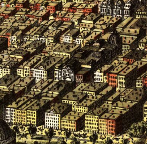 Detail of Currier and Ives's 1874 panoramic map of Chicago